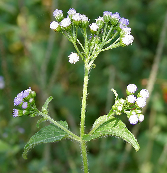 Mexican Ageratum, Yoat Weed, Billygoat-weed, Chick weed, Goatweed or Whiteweed Ageratum conyzoides in Narsapur, Medak district.